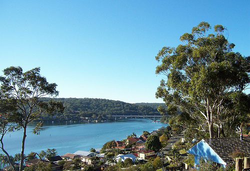 Blackwall